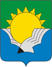 Volgorechensk (Kostroma oblast), coat of arms